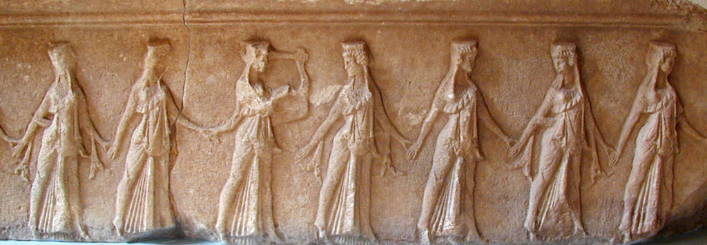 Frieze of the choral dancers from the Great Gods' sanctuary in Samothraki. Photograph taken by Marsyas 16:49, 9 Apr 2005 (UTC).